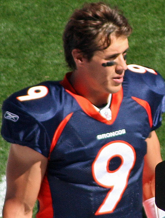 Brady Quinn, a player on the Denver Broncos American football team.